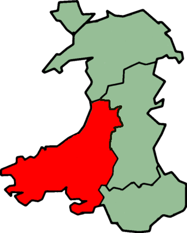 Map showing West Wales region